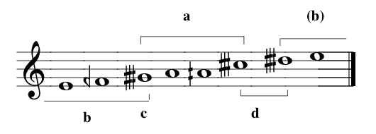 Ancient Greek Lydian tonos on E, in the enharmonic genus, with tetrachords (a and b), note of conjunction (c), and tone of disjunction (d) labeled